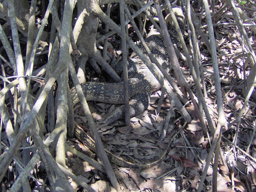 Varan in Can gio forest